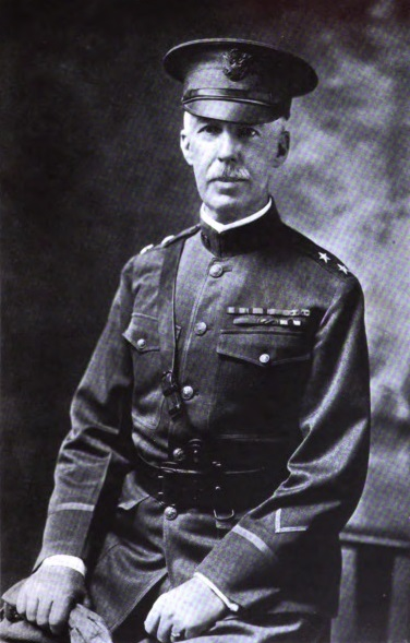 George H. Cameron, World War I commander of the 4th Infantry Division